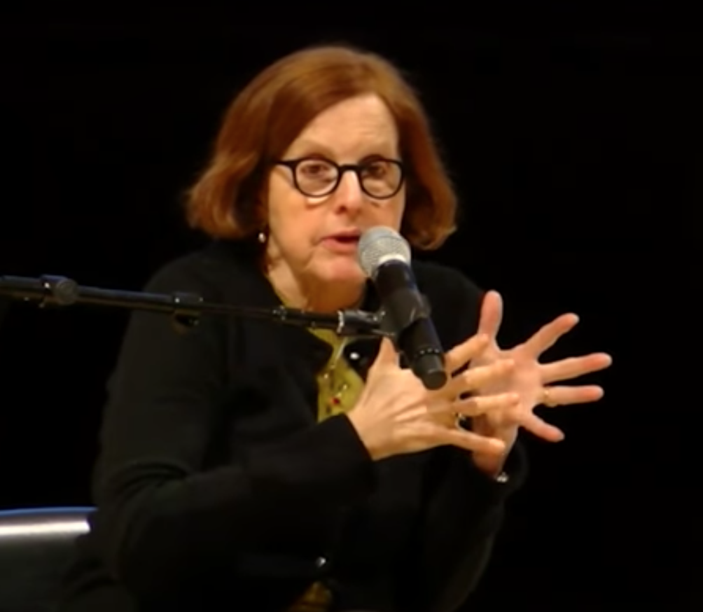 Roberta Smith speaking at the Brooklyn Museum with Emma Sulkowicz. This event took place at the Elizabeth A. Sackler Center for Feminist Art on December 14, 2014.